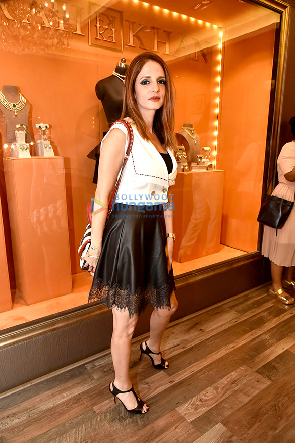 Sussanne Khan attend the launch of Farah Khan Ali’s 1st Monogram collection